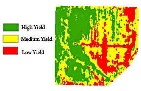 Agricultural Research Service researchers have developed a way to make more precise agricultural maps of fields from data generated by LIDAR (light detection and ranging) sensors to help farmers target more of their resources to the highest-yielding parts of their fields.